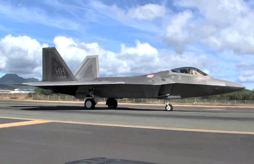 199th Fighter Squadron - Lockheed Martin F-22A LRIP Lot 3 Block 20 Raptor 03-4058.